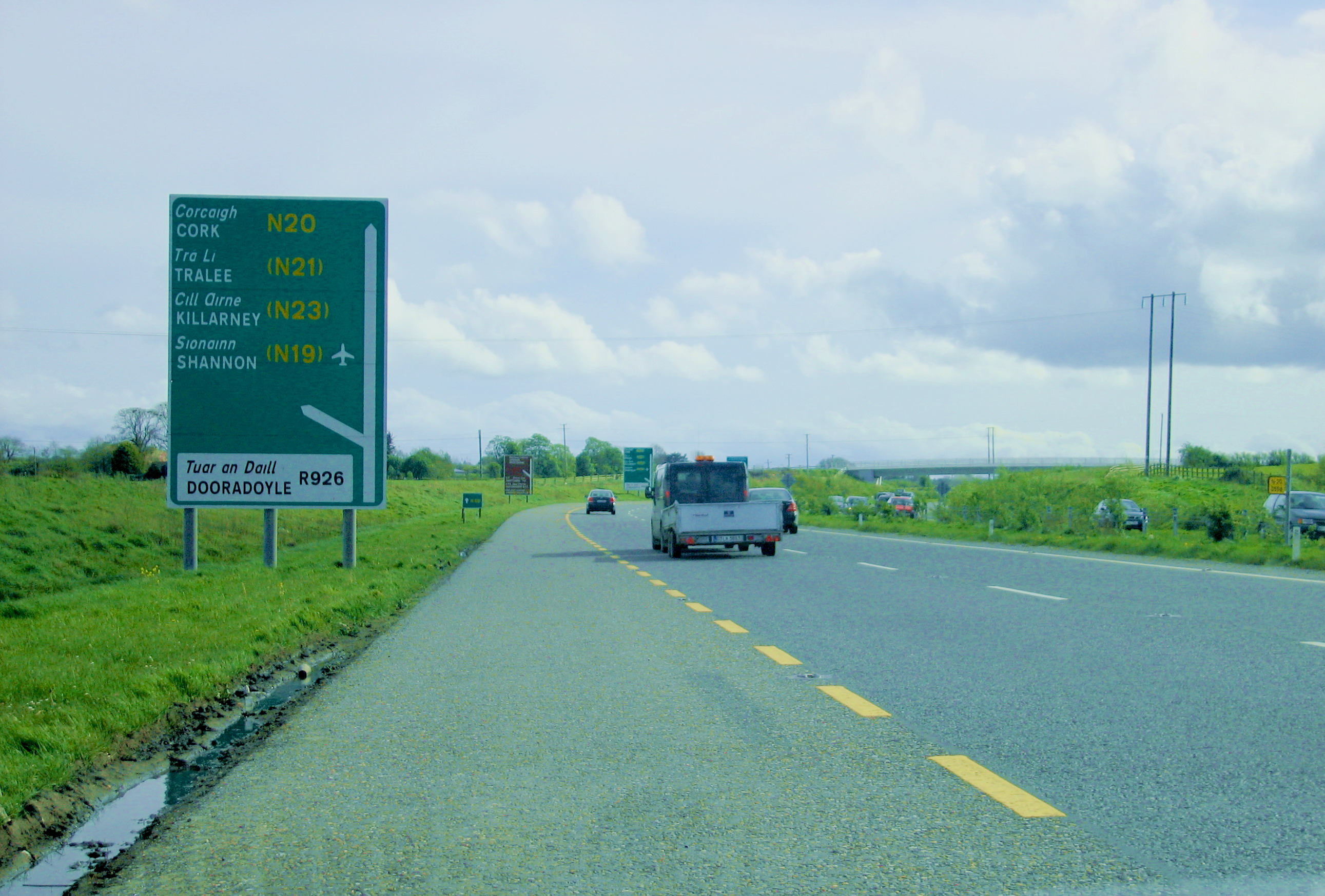 Slightly altered image of the N20 road (Ireland) approaching the Dooradoyle exit in Limerick.